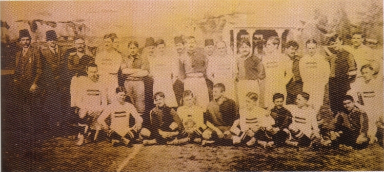 Galatasaray SK-Kolojvar FC football match 1911